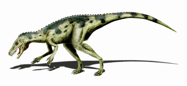 Herrerasaurus ischigualastensis, pencil drawing after skeletal by C. Abraczinskas and P. Sereno; see [1], details of the skull at [2] and of the hands and feet at [3]